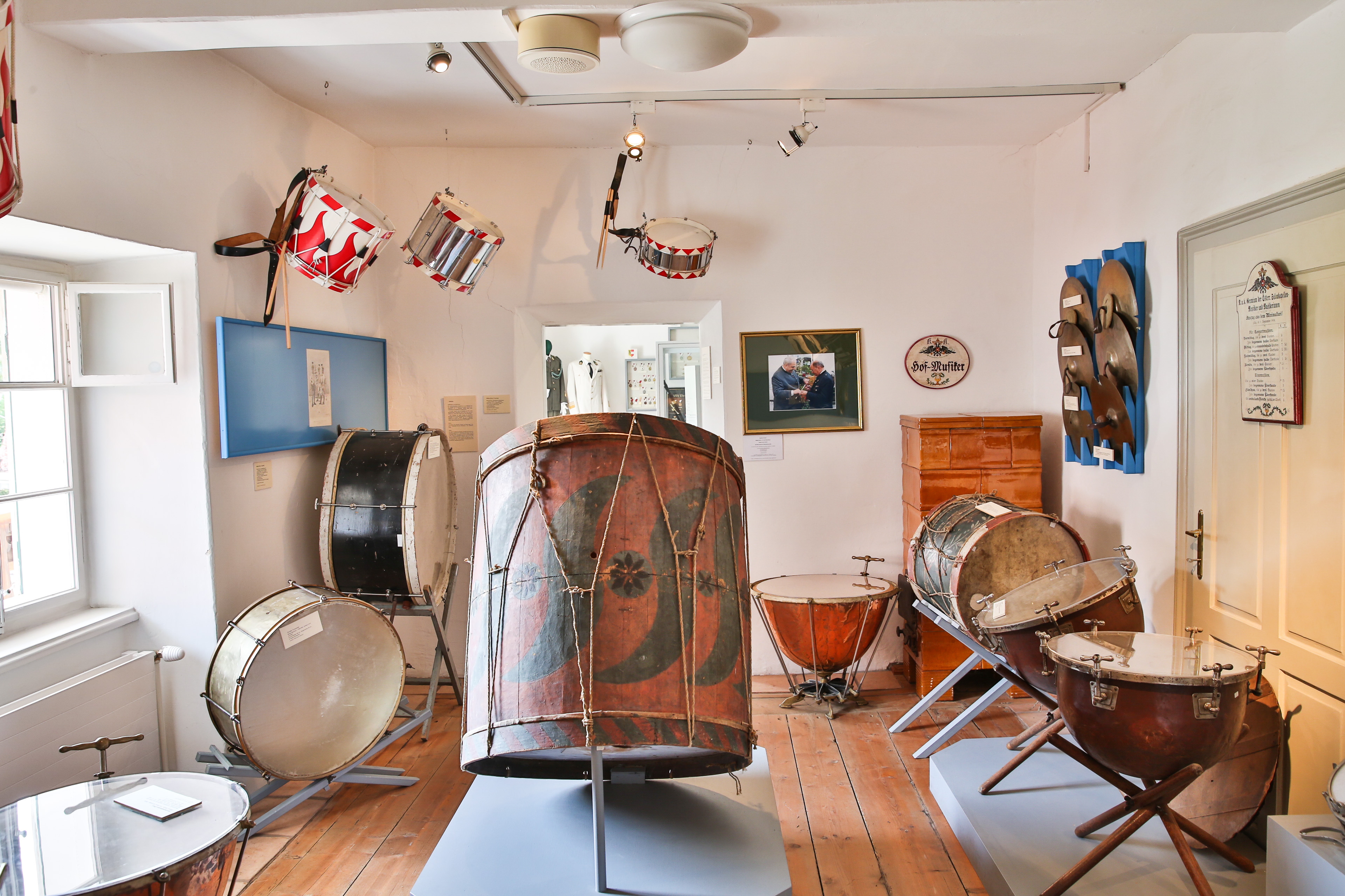 Austrian Brass Music Museum in Oberwölz / Styria / Austria / EU. Room with drums.